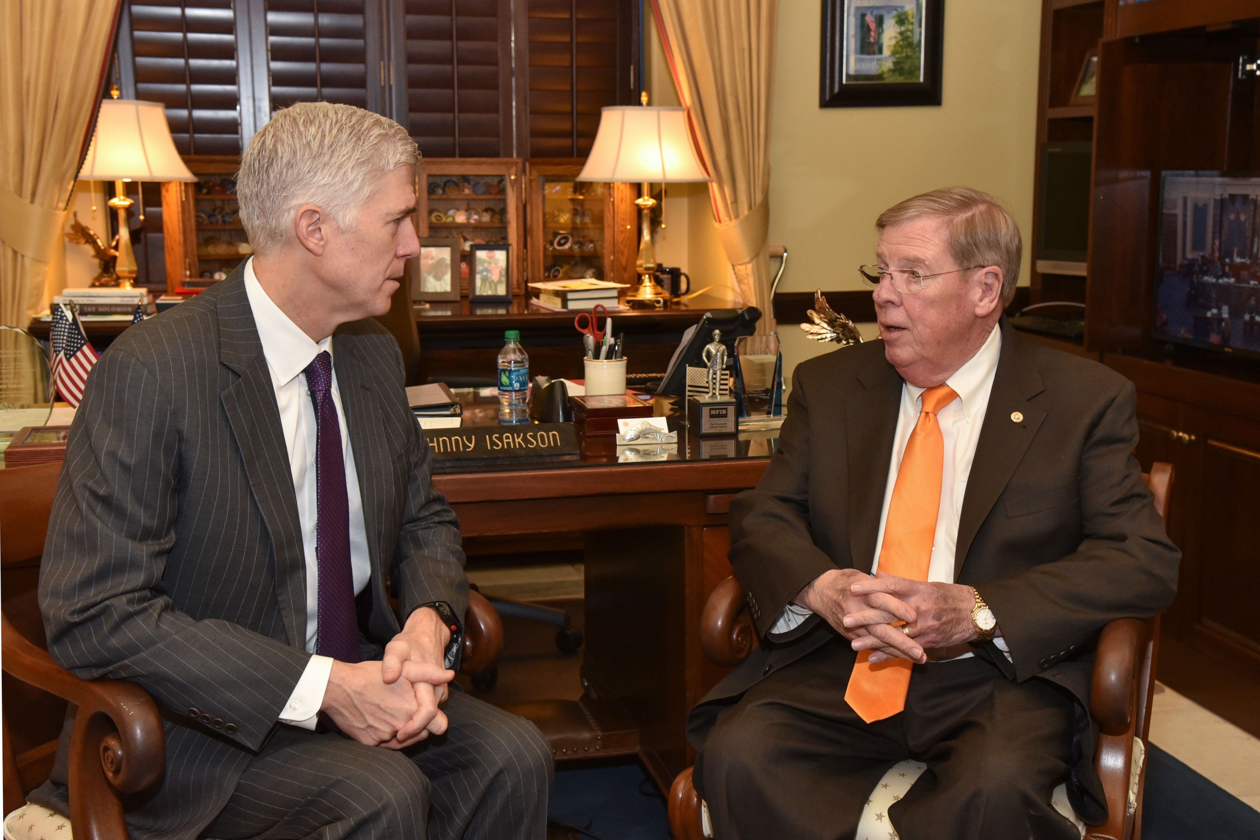 Encouraged by my meeting today with Supreme Court nominee Judge Gorsuch & believe he will serve with wisdom and distinction.